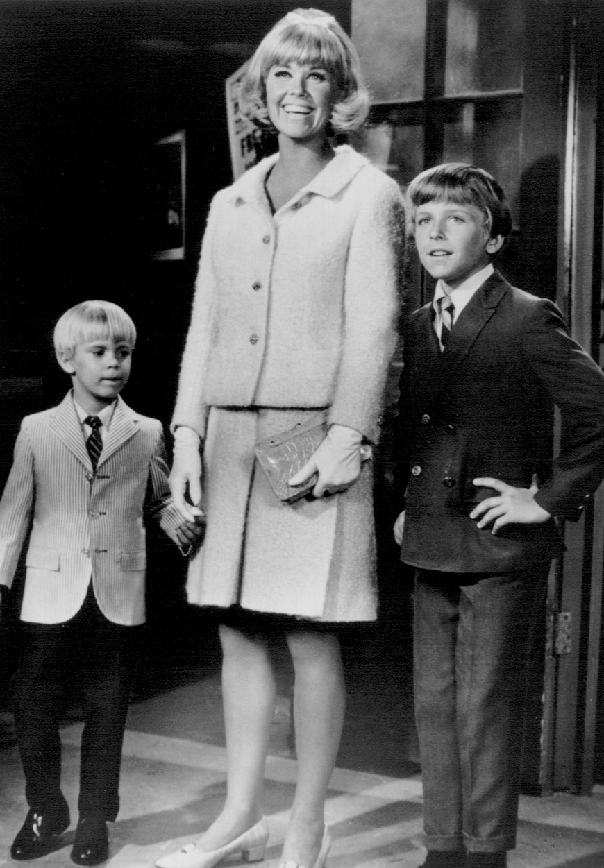 Photo of the main cast of The Doris Day Show when the program premiered in 1968. From left Todd Starke (Billy Martin), Doris Day (Doris Martin) and Philip Browne (Toby Martin). Day played a widow with two young sons.